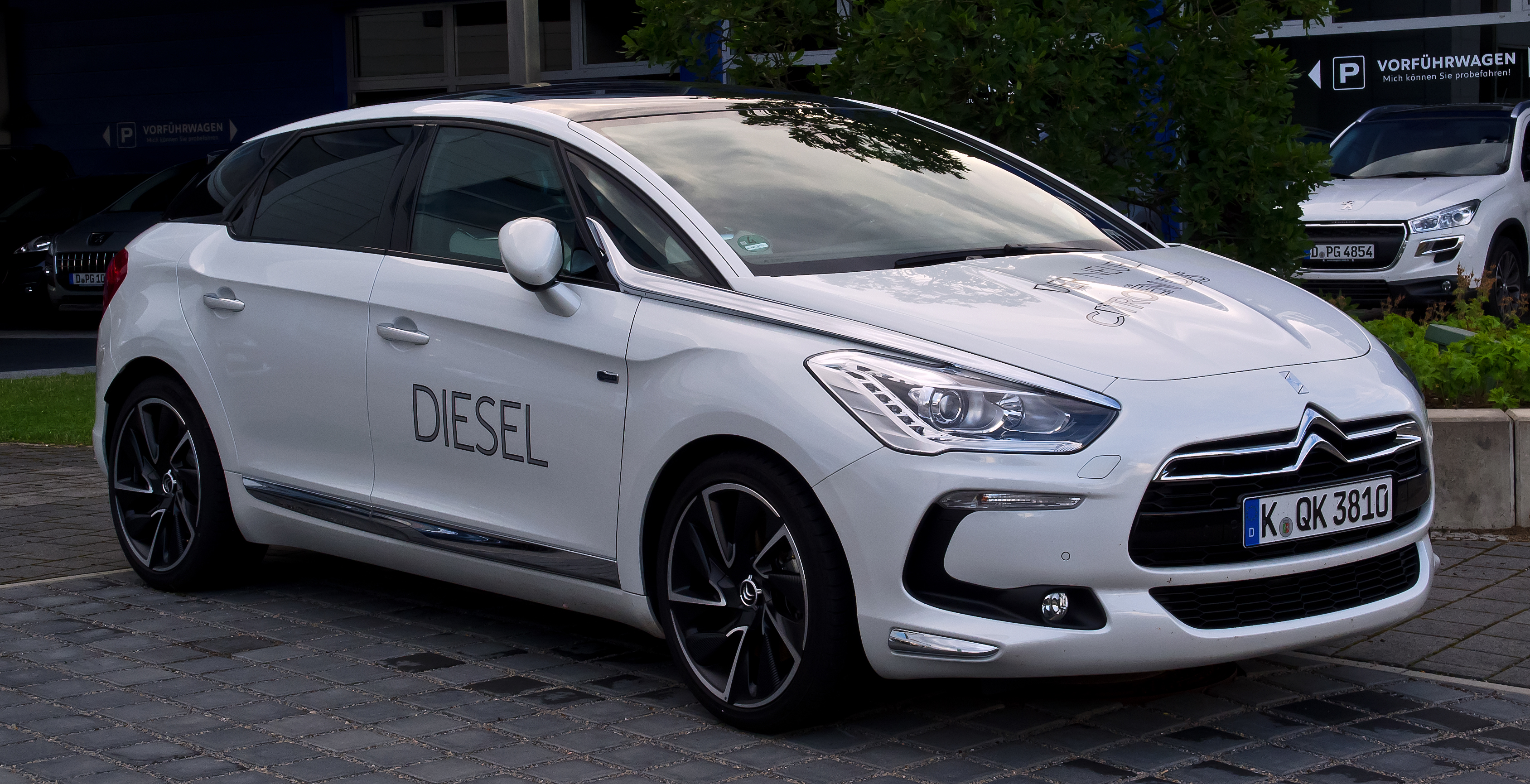 Citroën DS5 HYbrid4 EGS6 Airdream